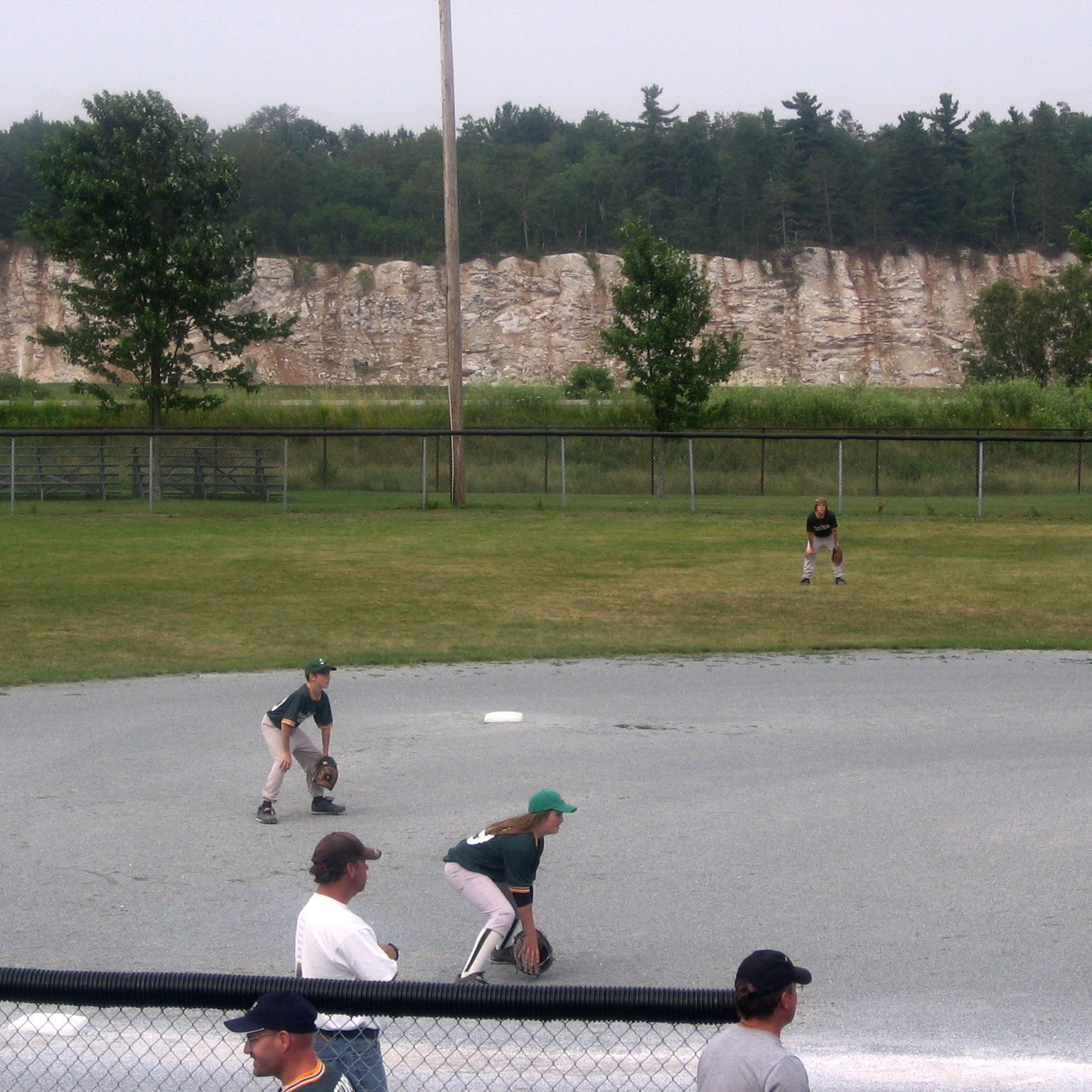 Photograph of ball game at St Croix Recreation Park to illustrate article of same name